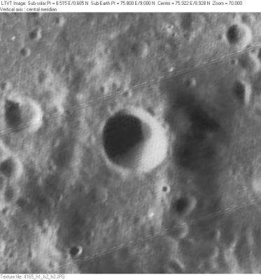 LO-IV-165H